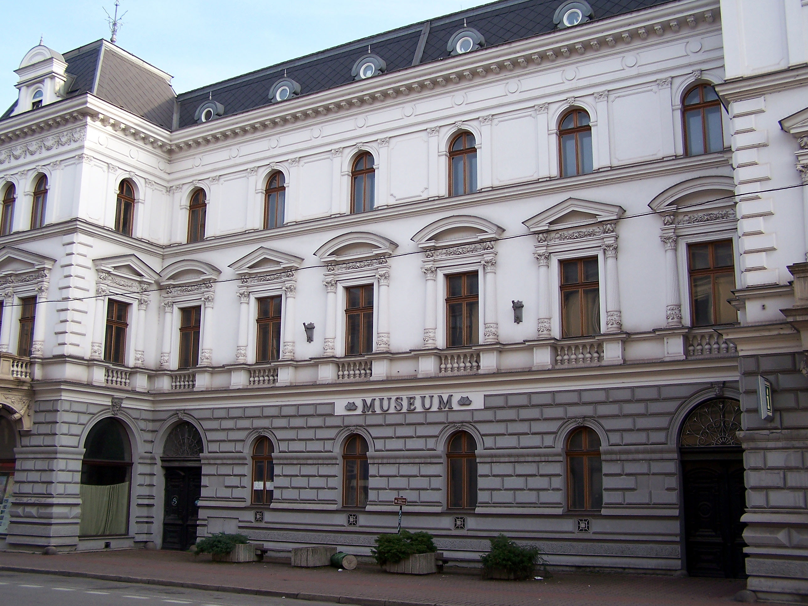 Building of the Museum of Cieszyn Silesia in Český Těšín (Czeski Cieszyn).